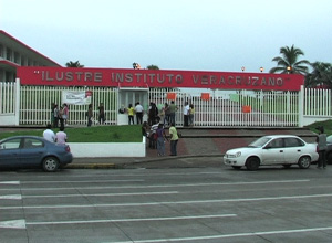 Actual entrada del ilustre instituto veracruzano